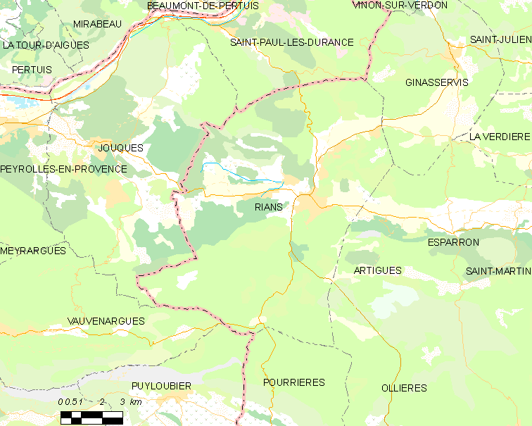 Map of French municipality Rians